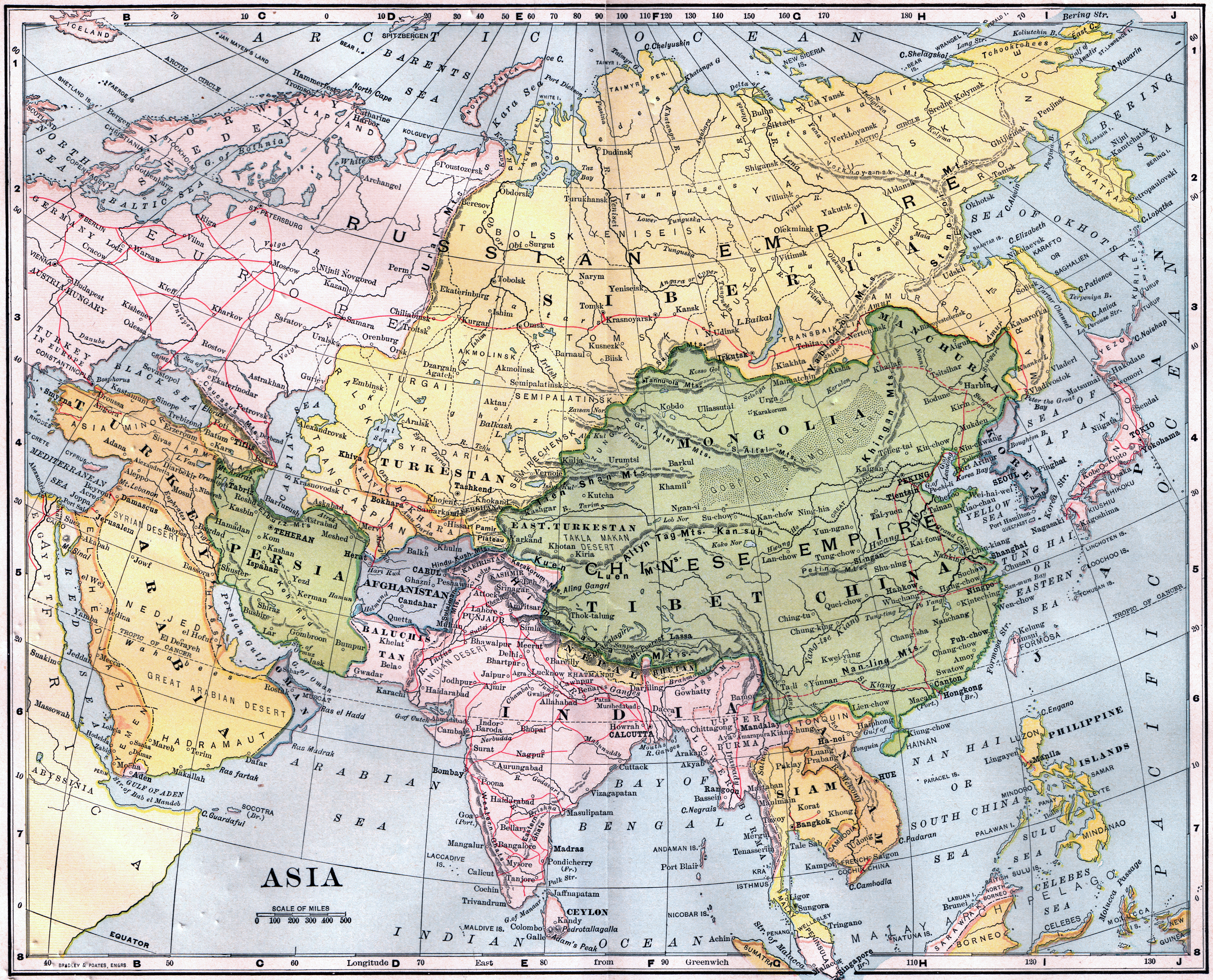 Map of the Asian continent published in 1904.